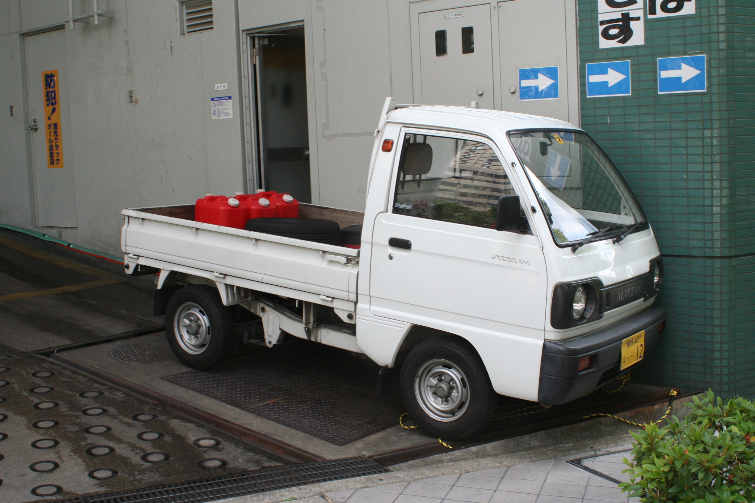 Autozam (Mazda) Scrum Kei Jidosha Pickup